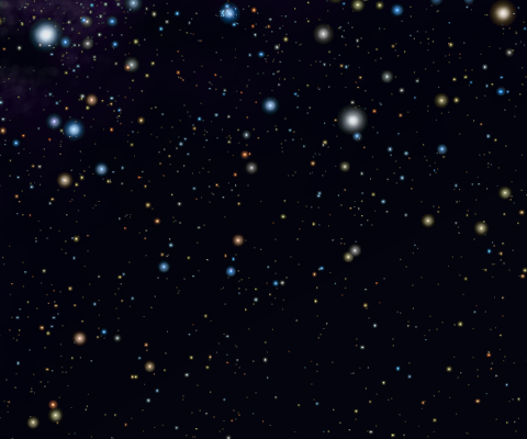 Image of Chamaeleon